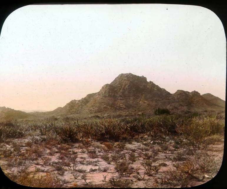 Foothills of Golis Mountain range. 1896. Name of Expedition: Africa Expedition Participants: D.G. Elliot and Carl Akeley Expedition Date: 1896 Purpose or Aims: Zoology Mammals Location: Africa, Somalia, Golis Mountain range Original material: Hand-colored glass lantern slide Digital Identifier: CSZ6052_LS Learn more about The Field Museum's Library Photo Archives.